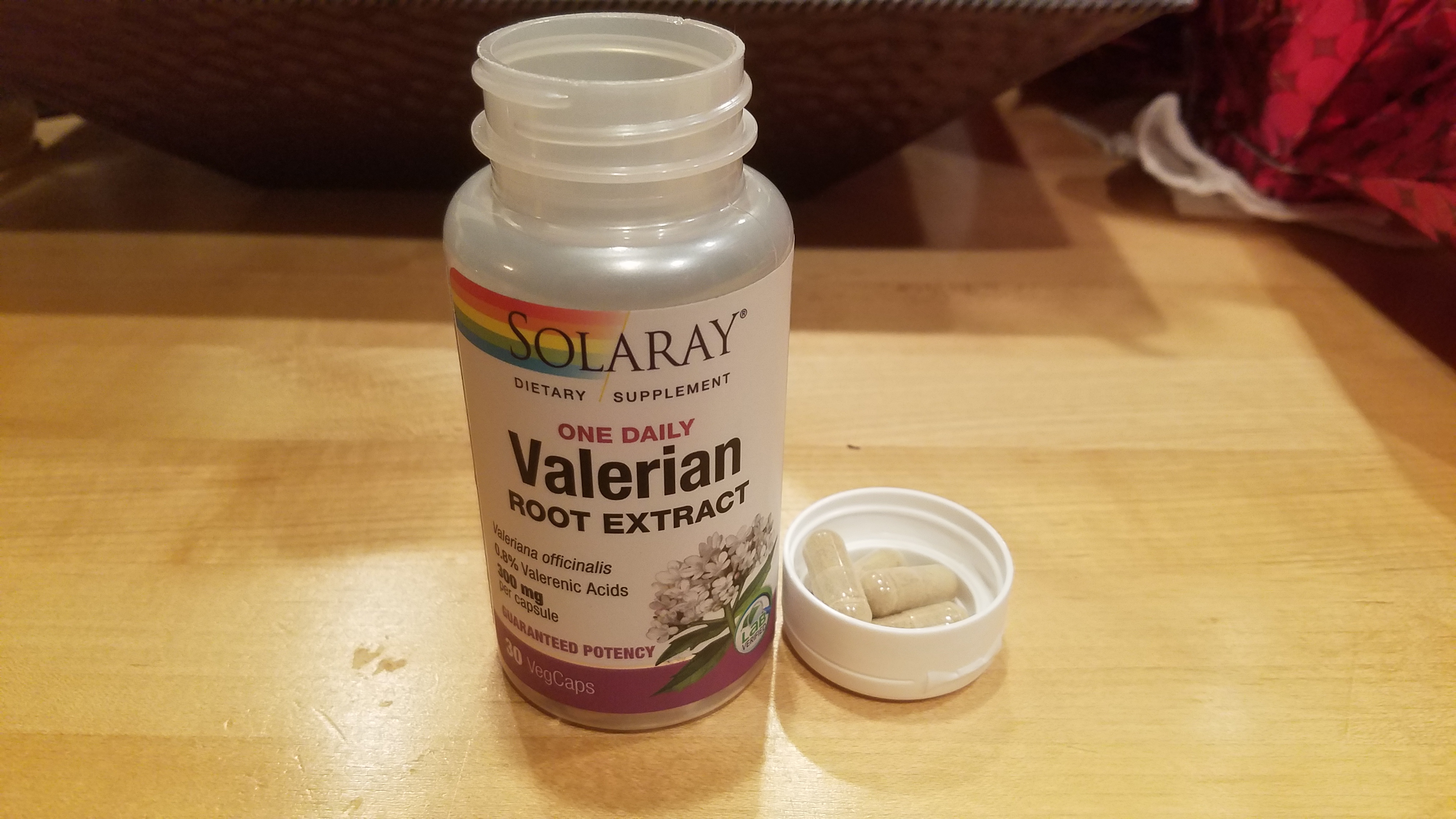 A bottle of capsules of the herb, Valerian (Valeriana officinalis)